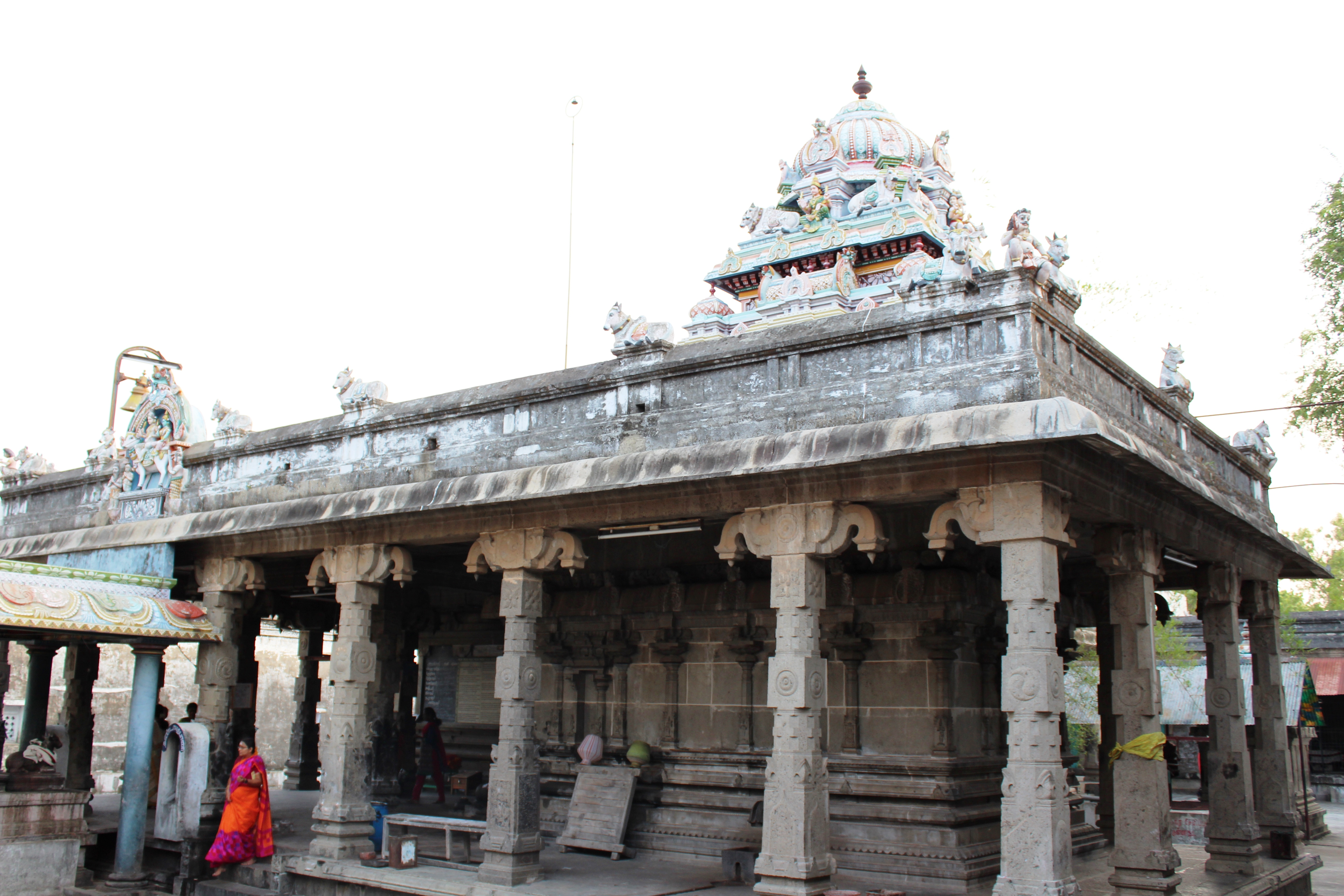 Thiruvetkalam